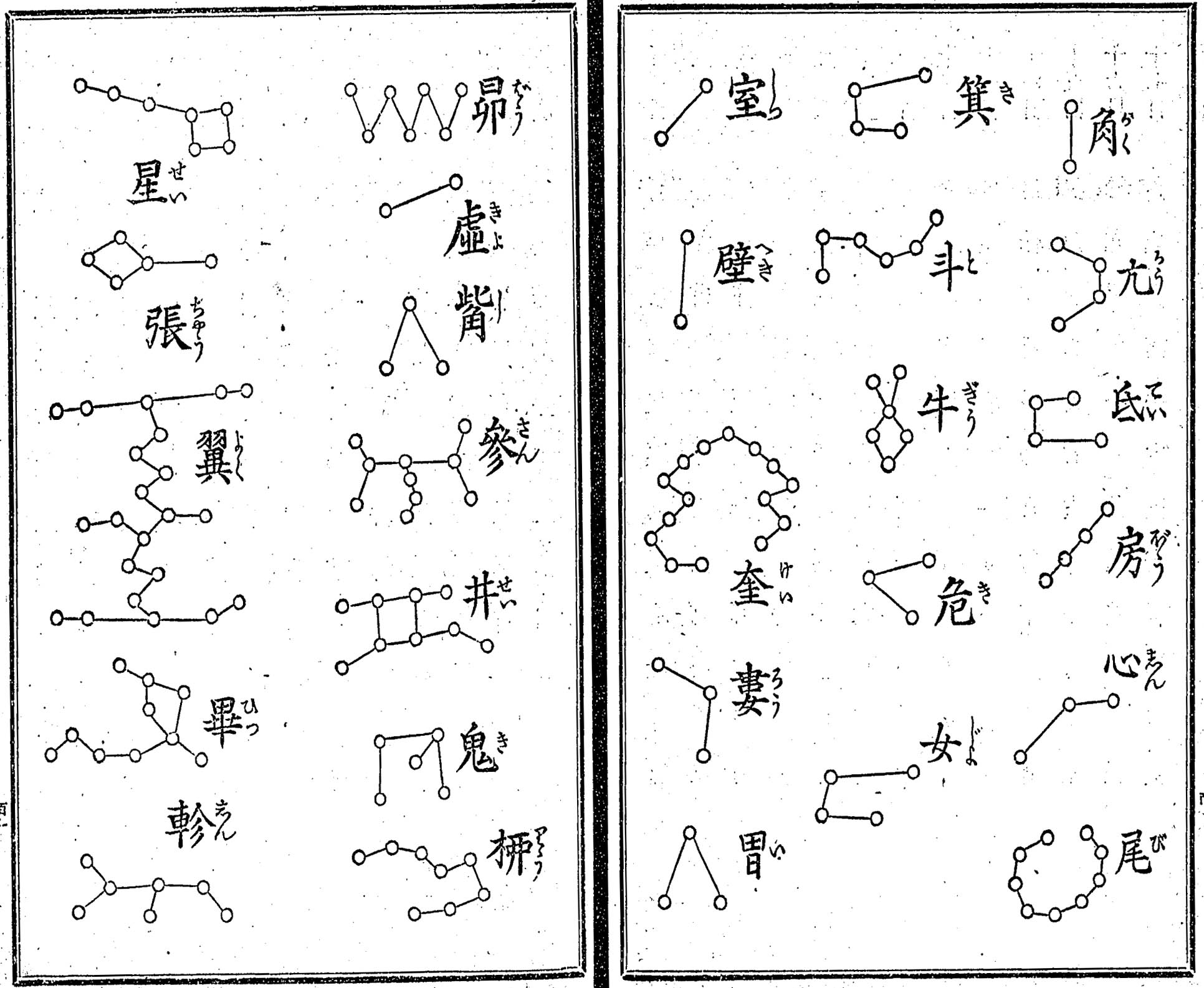 Twenty-eight mansions